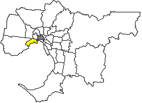 Map of Melbourne, Victoria (Australia), LGA of Hobsons Bay City highlighted